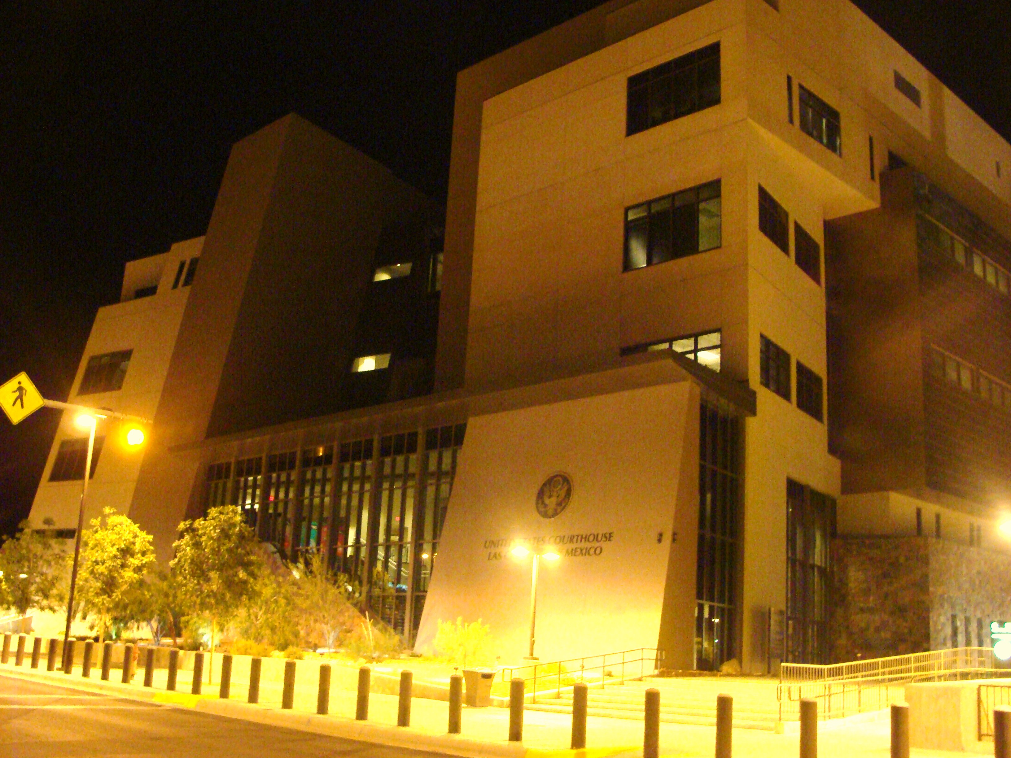 Completed federal courthouse at night.